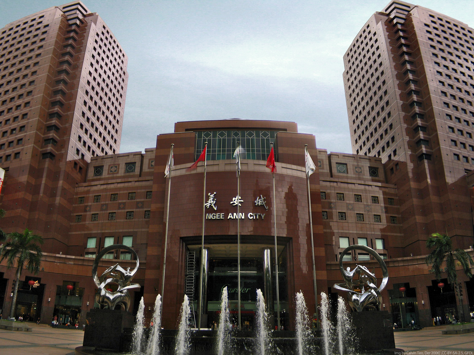 The Ngee Ann City Shopping Mall, located along shopping street Orchard Road, Singapore. (2MP version)